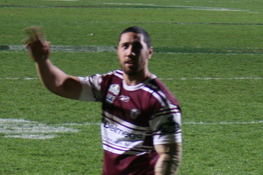 Brent Kite Wave in 2008